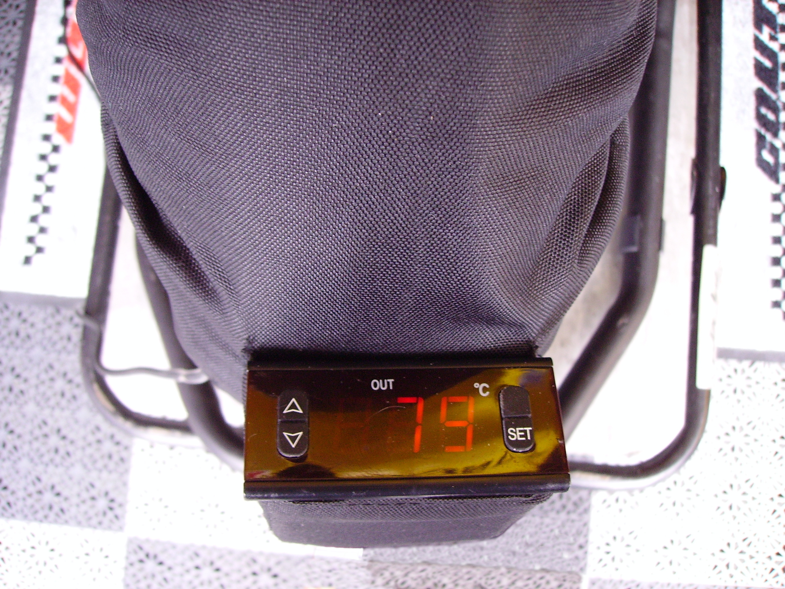 Before a race, preheating to ~80 °C using an electric heating pad of a motorcycle tire (tread and sidewall) to increase grip.